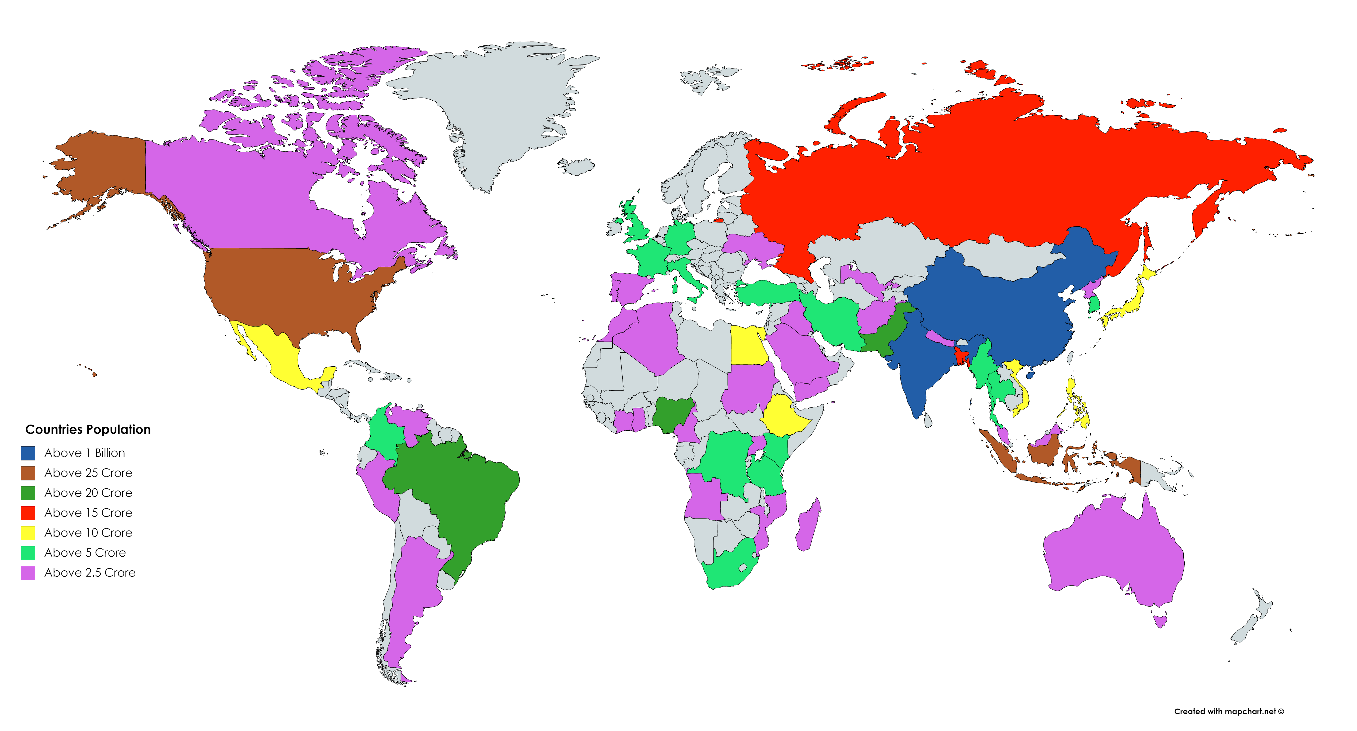 Details